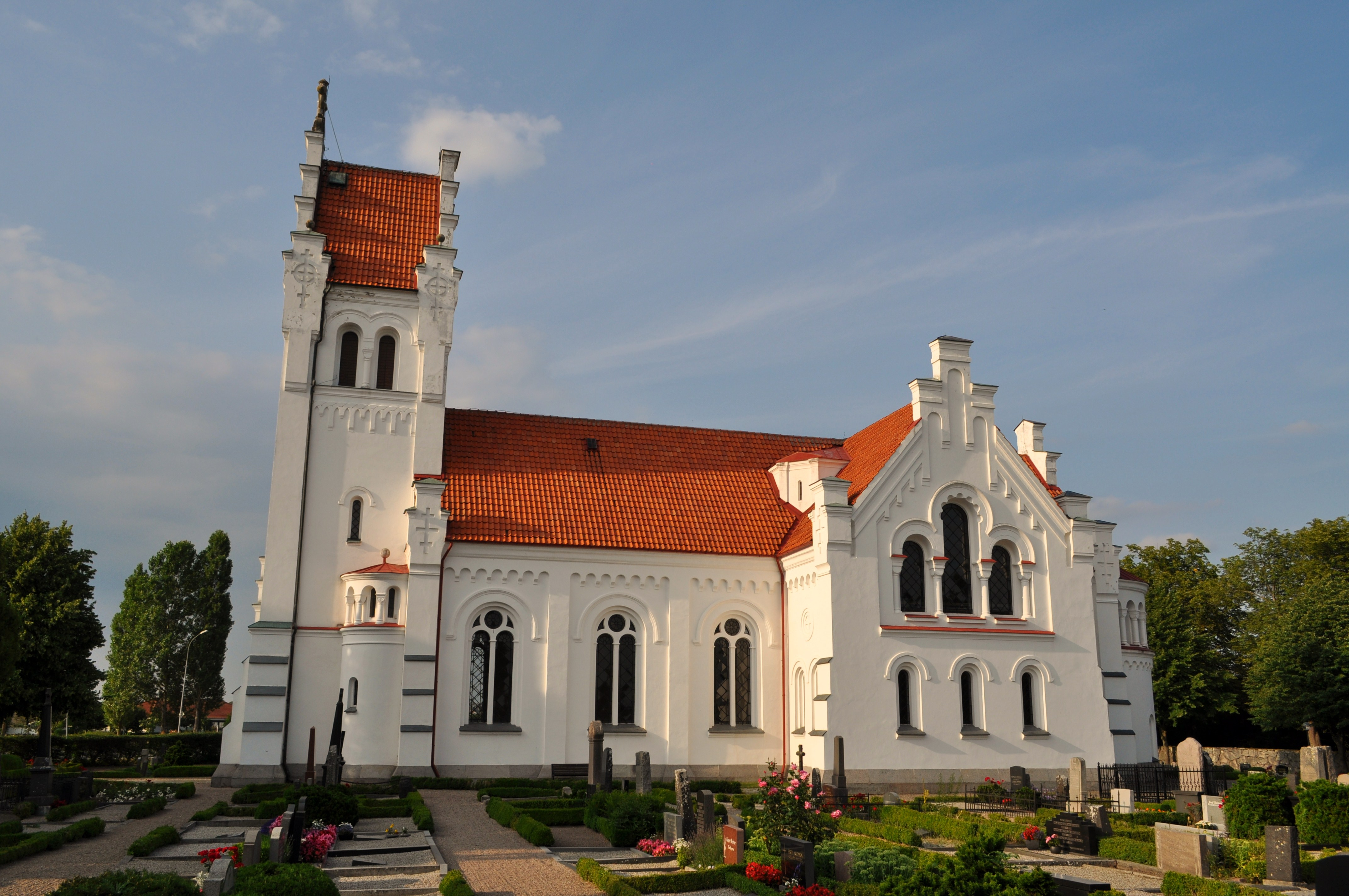 Österlövs church - kyrka